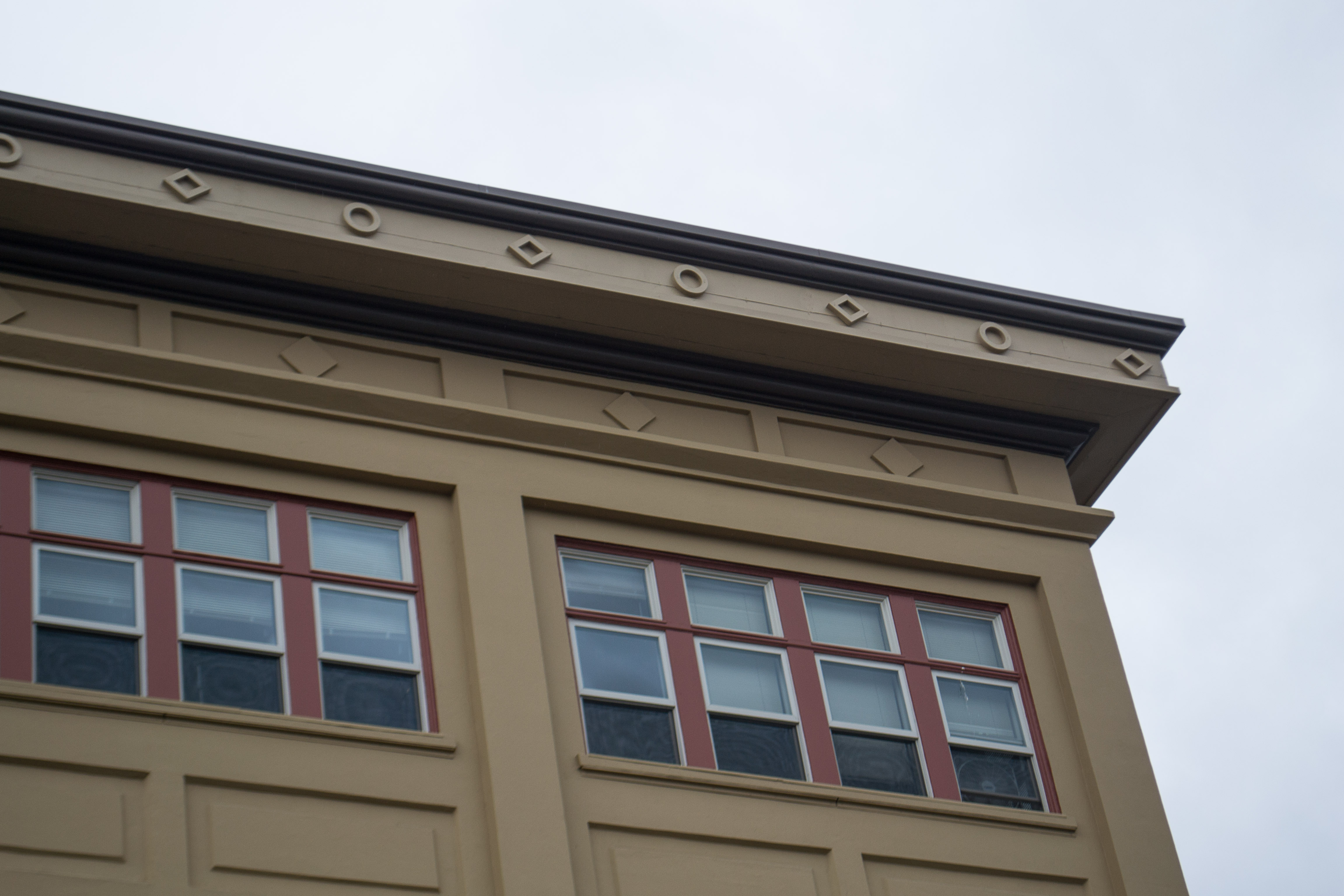 Inset panels surround the window groups, and an alternating circle and diamond pattern tops the cornice at the J. D. Billingsley Building in the East Portland Grand Avenue Historic District